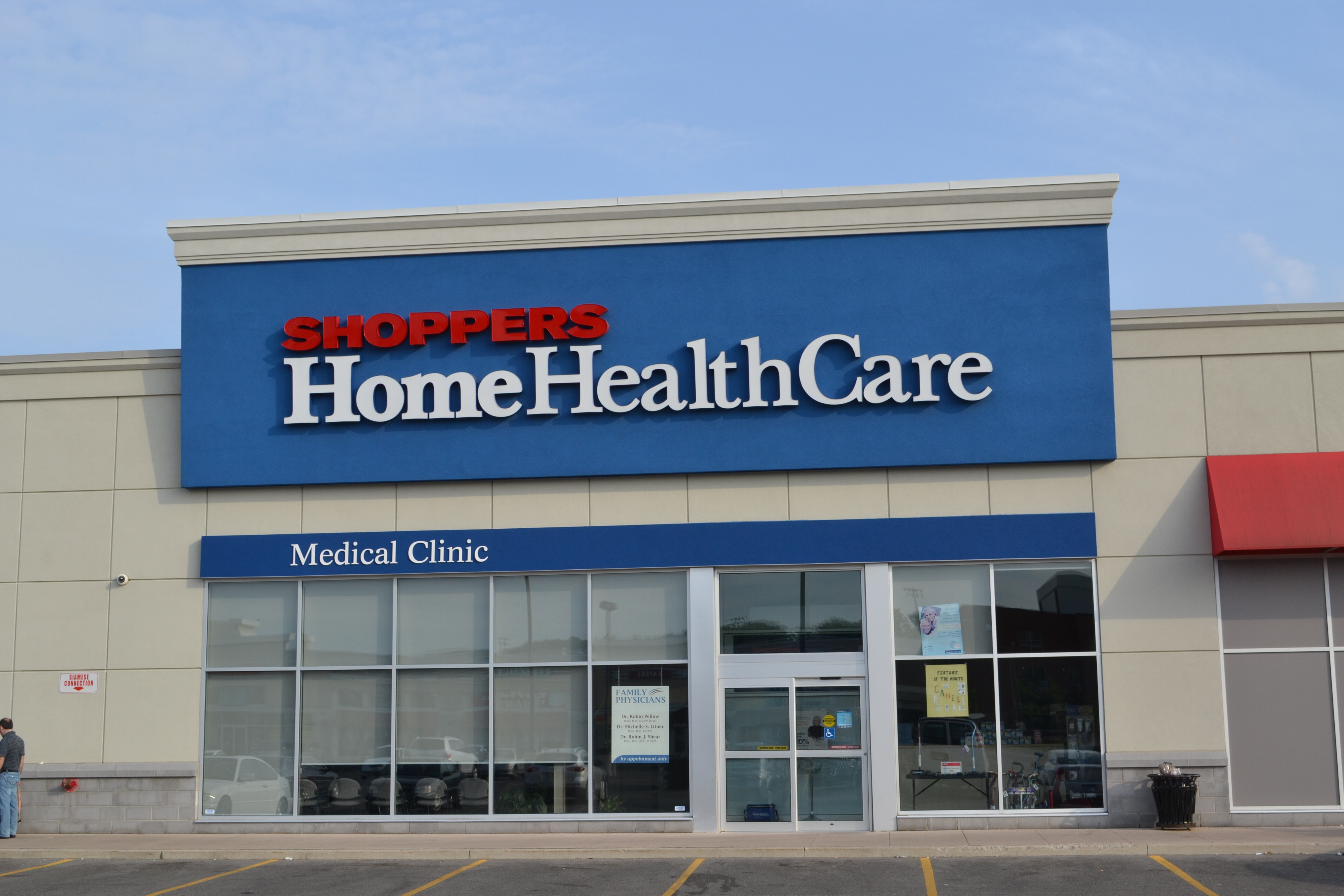 Shoppers Drug Mart, 8000 Bathurst Street, Vaughan